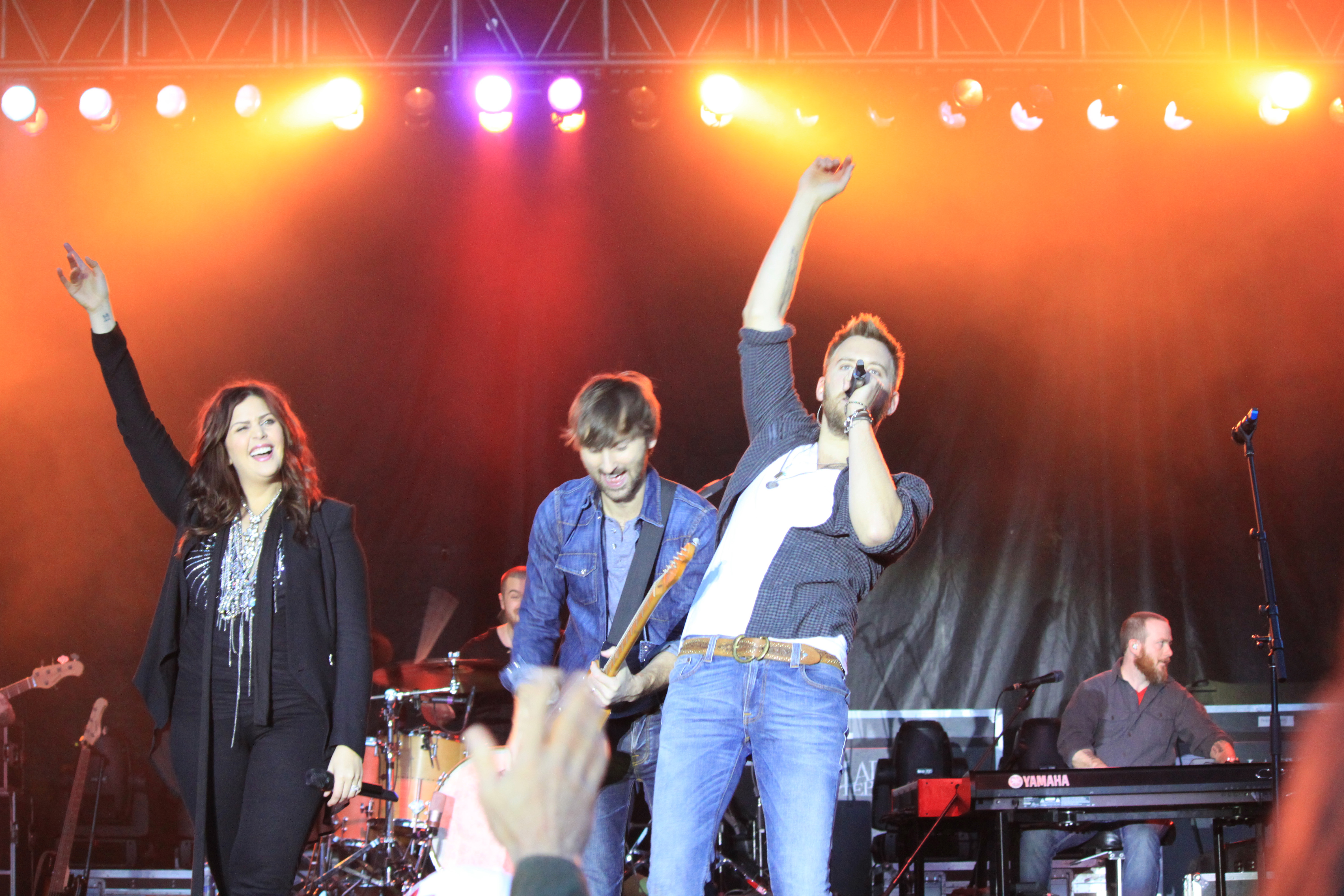 Lady Antebellum play in Charlotte